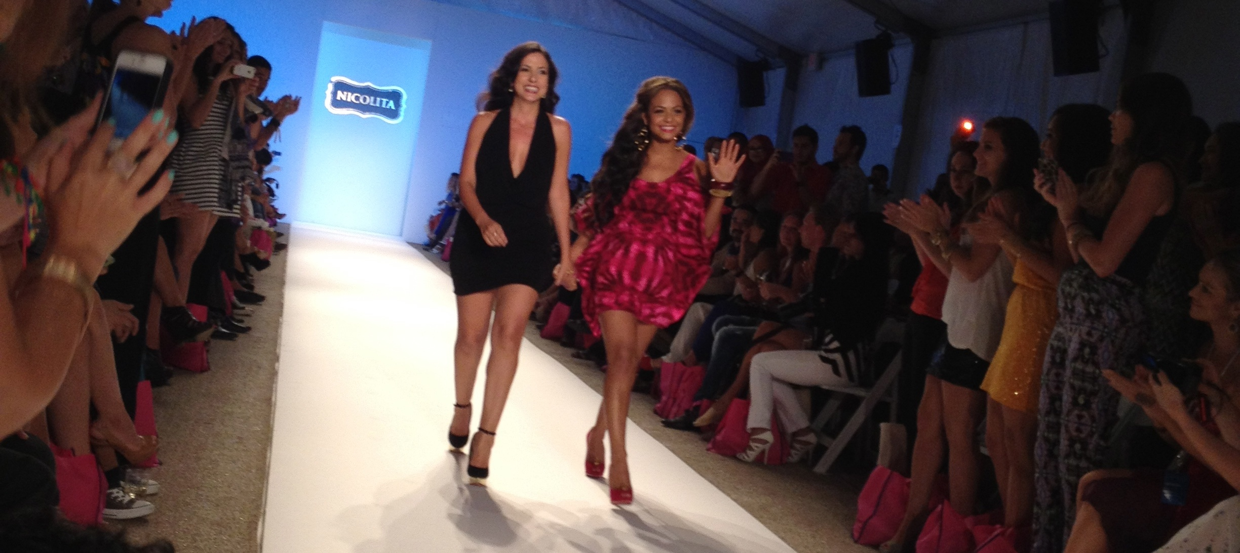 Finale with Nicole Di Rocco and Christina Milian #MBFW